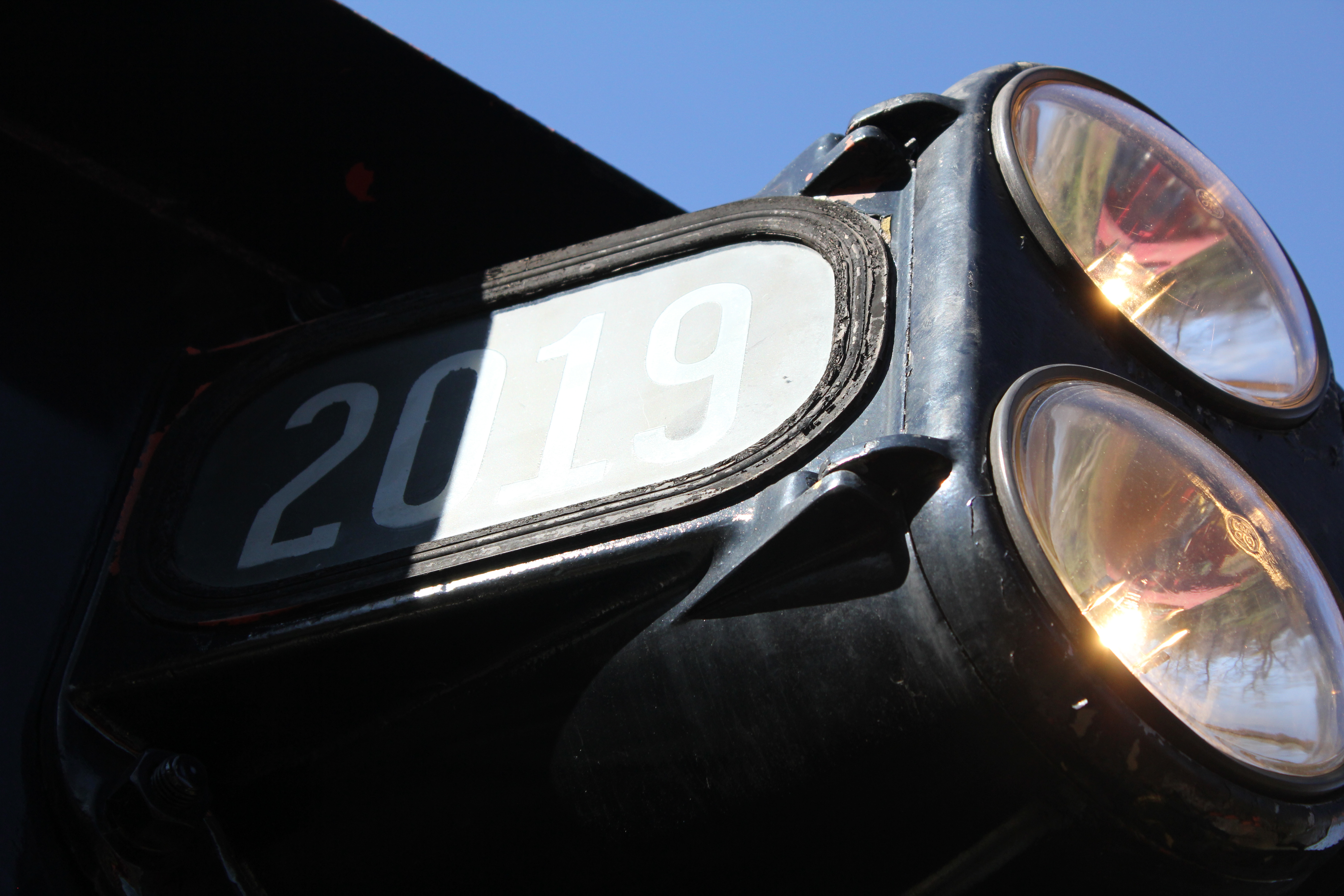 Manufactured by General Motors Electromotive Division in 1951 for the U.S. Army, the 2019 was utilized in the Korean War. These diesel engines generate 800-horsepower and allowed a reduction in transportation since they did not need the water and coal the steam engine required. Read more